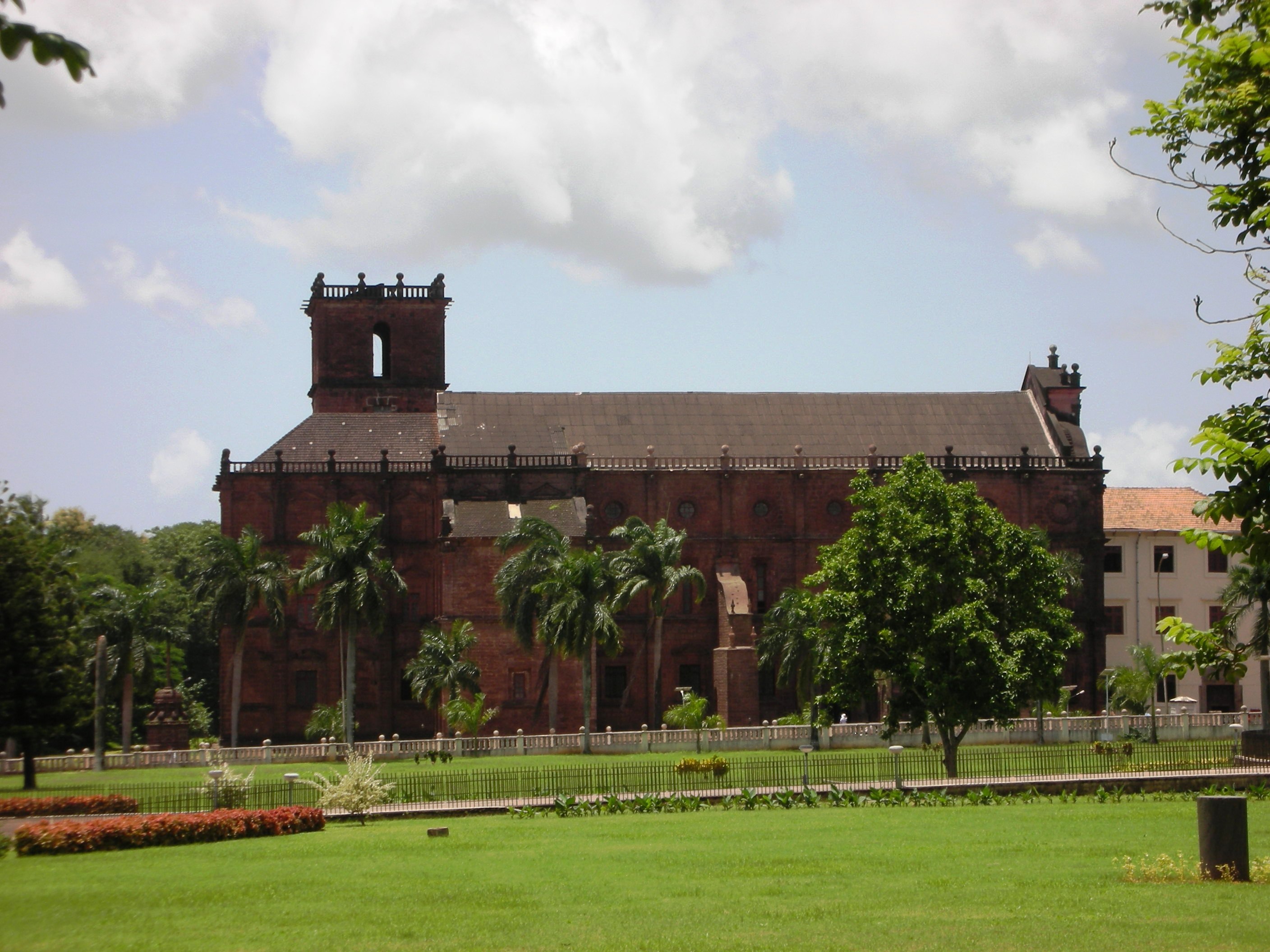 Basilica of Bom Jesus; lateral view